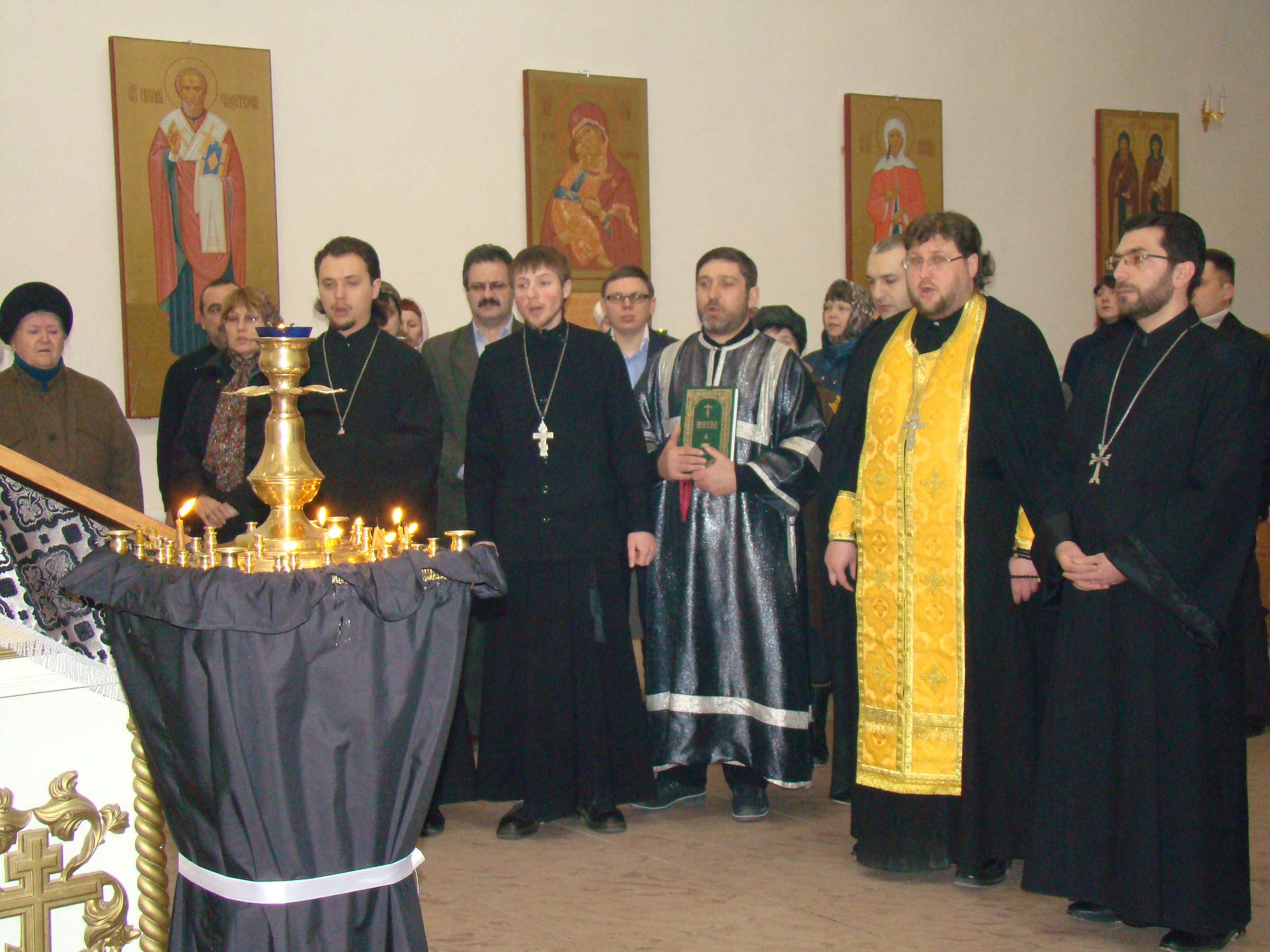 Armenian-Russian church relations